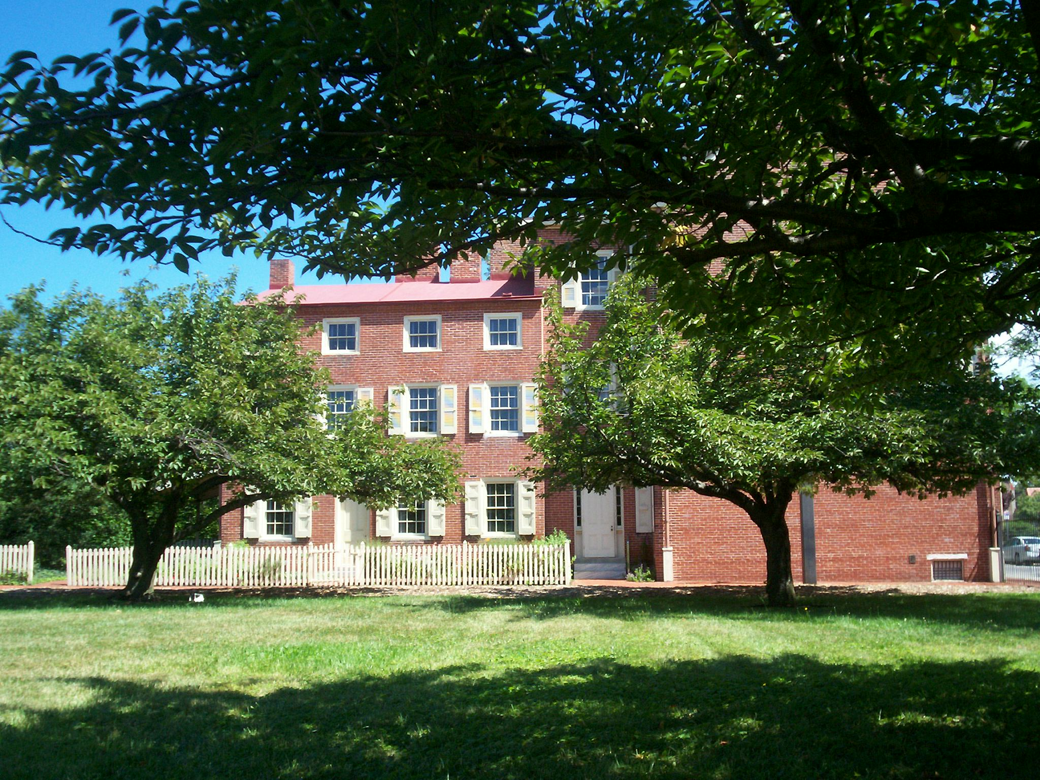 Edgar Allan Poe National Historic Site in Philadelphia as seen from Spring Garden St.